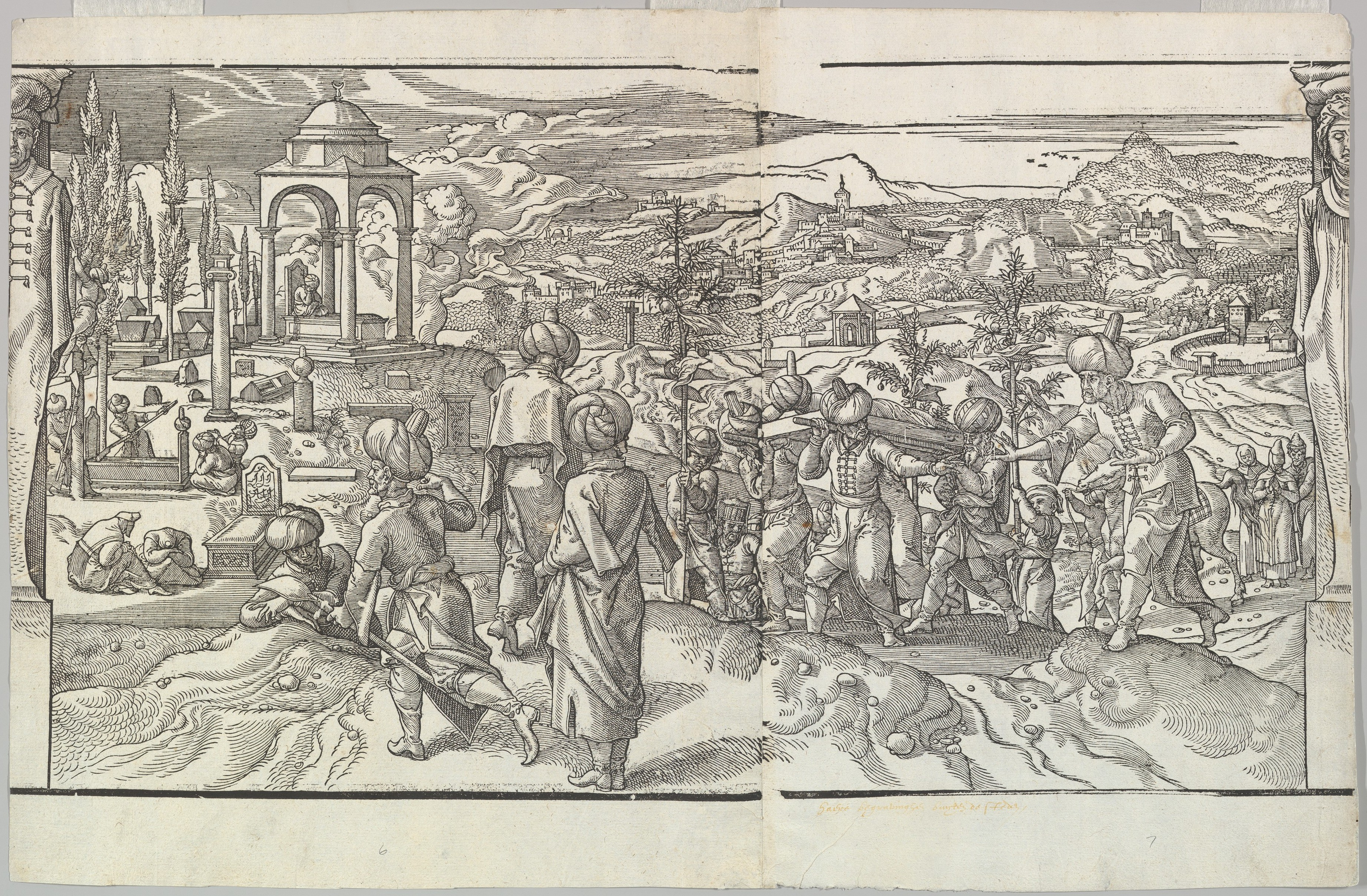 A Turkish Funeral from the Ces Moeurs et fachons de faire de Turcz